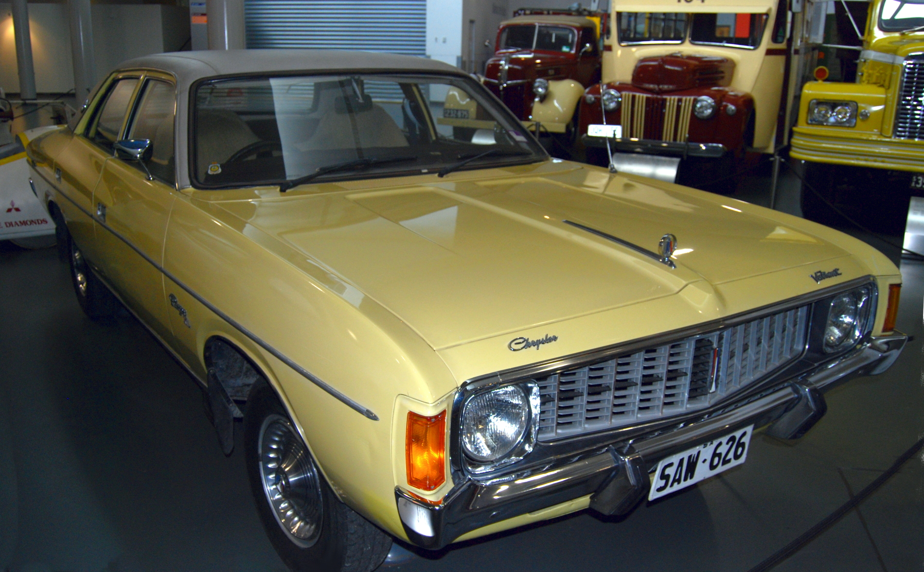 1973 Chrysler VJ Valiant Ranger sedan, built in the Tonsley Park plant in Adelaide. On display at the National Motor Museum, Birdwood, South Australia. This Ranger has a non standard Chrysler badge above the grille, a Valiant Regal bonnet emblem and Ranger XL badging on the front guard, although the VJ series did not include a Ranger XL model.